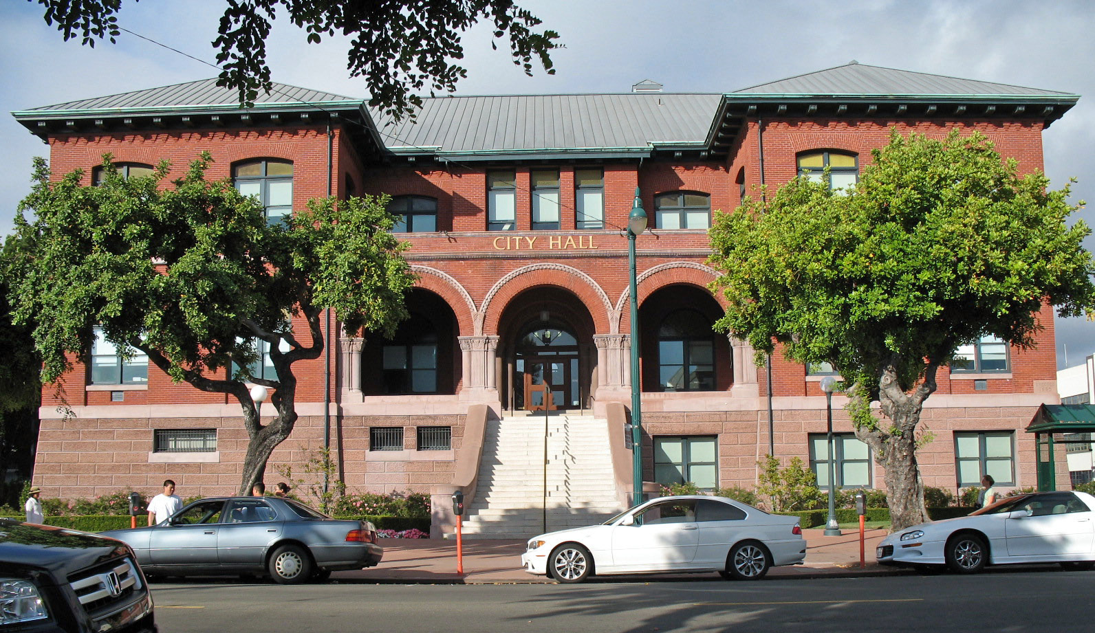 National Register of Historic Places listings in Alameda County, California. Alameda City Hall, Santa Clara Ave. and Oak St., Alameda, California, USA. Photographed 2008-10-04 from the south side of Santa Clara Ave. near the intersection of Oak St.